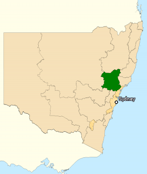 This image incorporates data that is: © Commonwealth of Australia (Australian Electoral Commission) 2009 Division of Hunter 2010